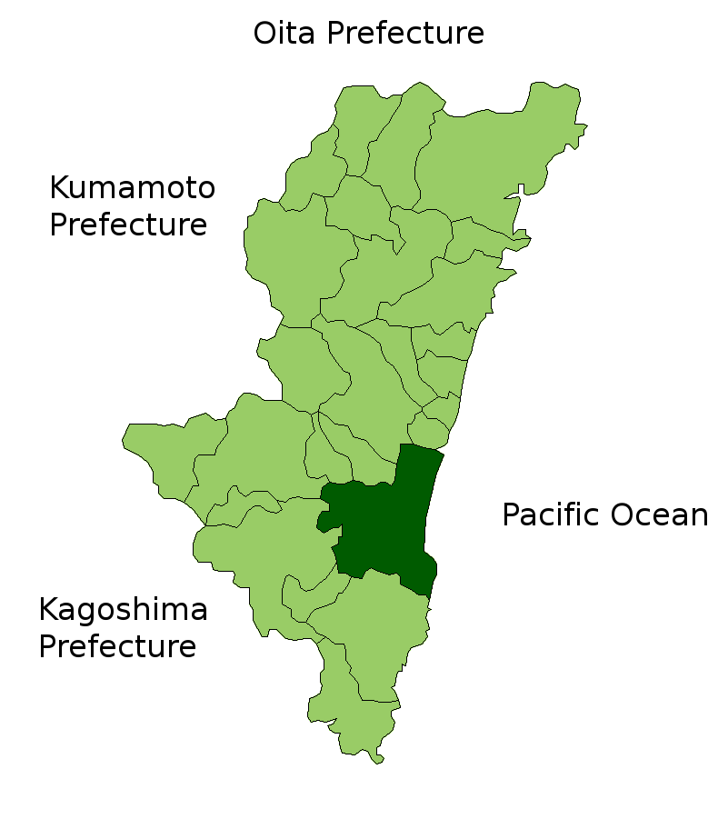 Location Map of Miyazaki in Miyazaki Prefecture, Japan